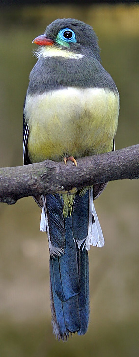 Sumatran Trogon